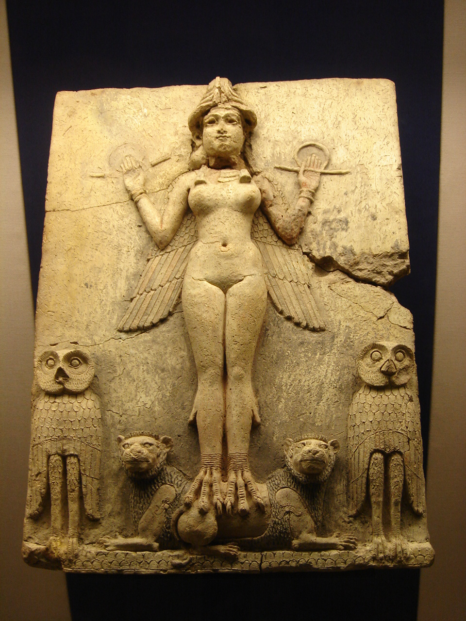 Known as the Burney relief or Queen of the Night Relief